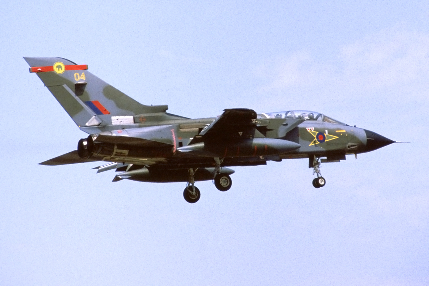 Greenham Common, 22 July 1983. A brand new ZA613 of 27 Squadron (RAF Marham) arriving for the International Air Tattoo. The squadron had just reformed with Tornadoes after disbanding as Vulcan squadron in 1982. The 27th was a 'nuclear' squadron.